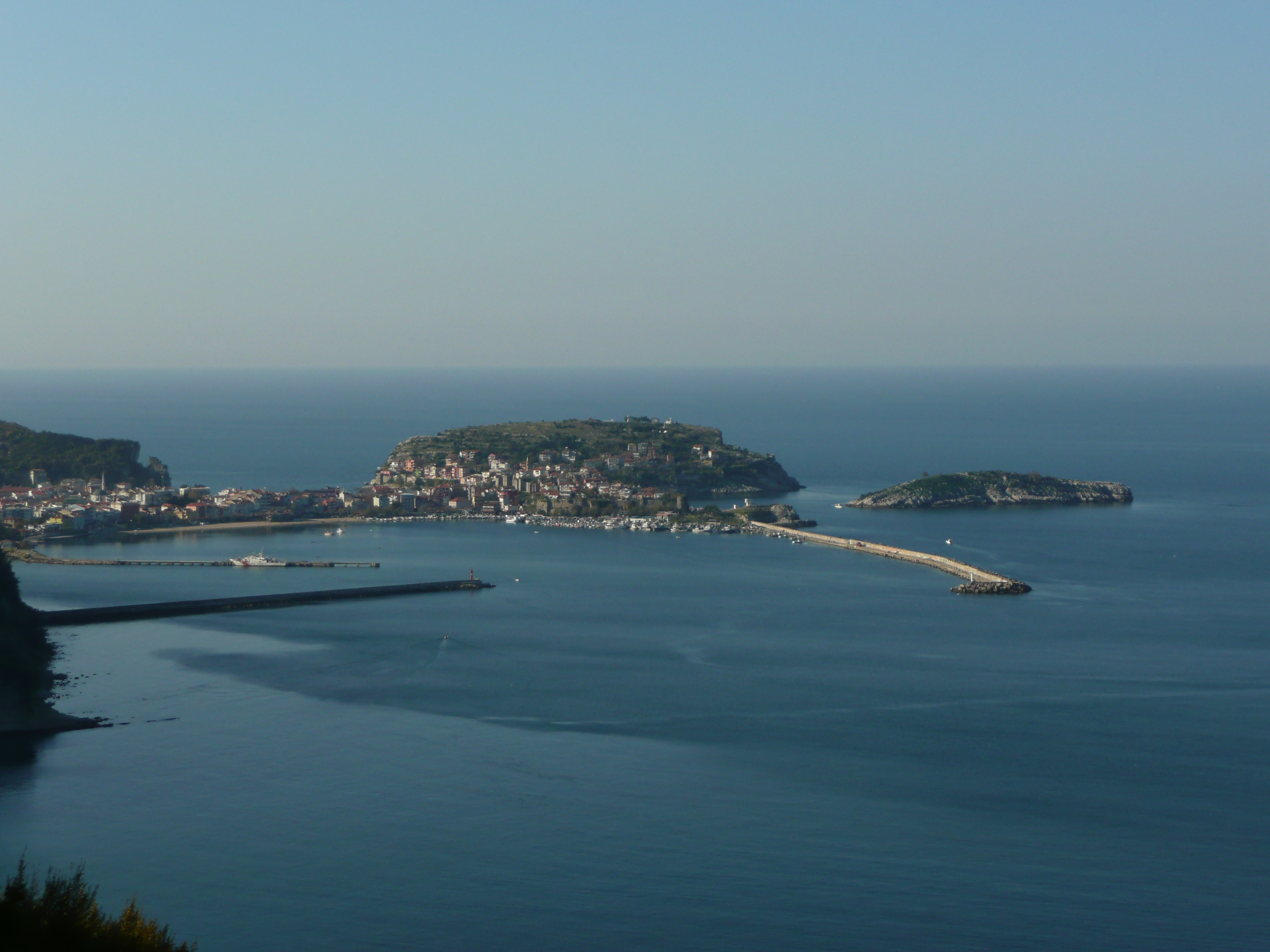 Photographs from Amasra